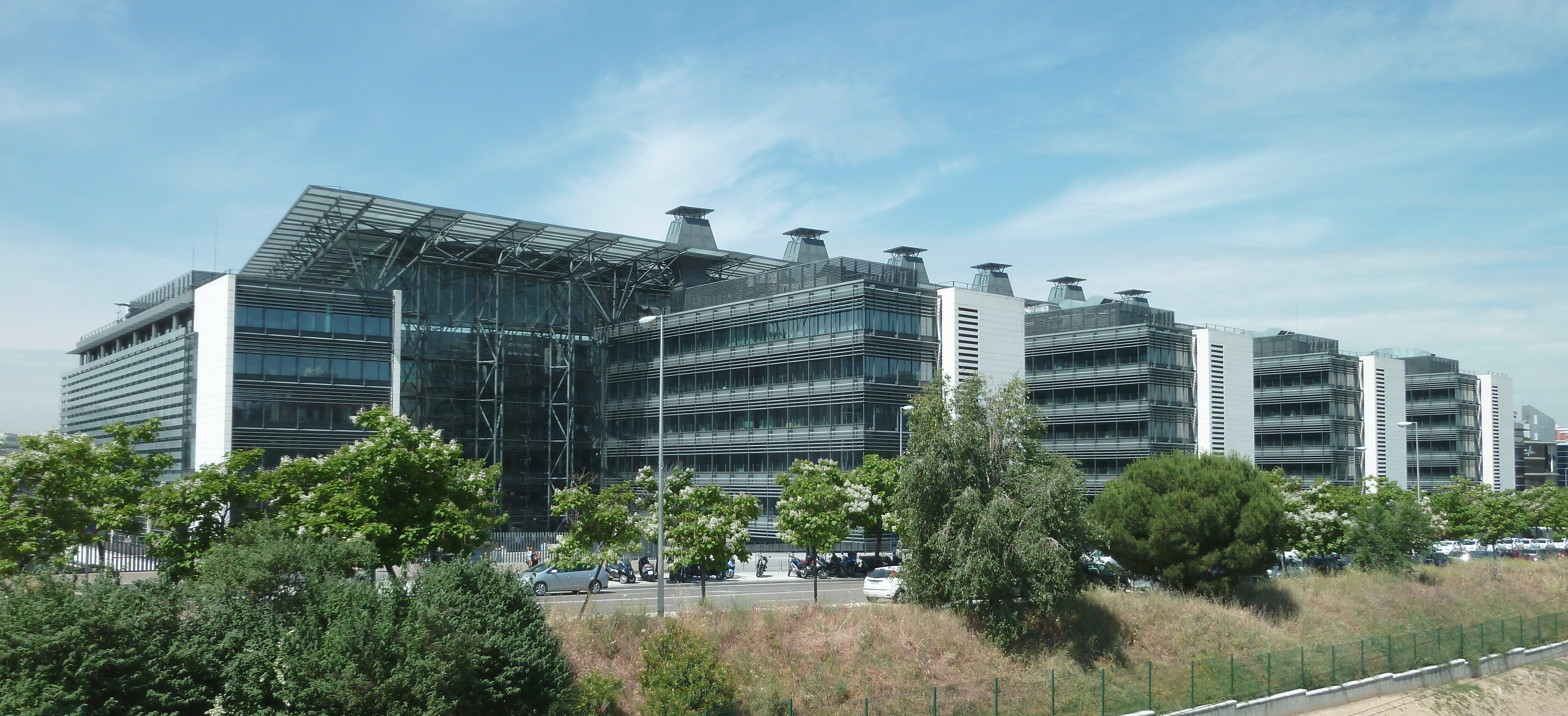 North-east façade of Endesa headquarters in Madrid (Spain).